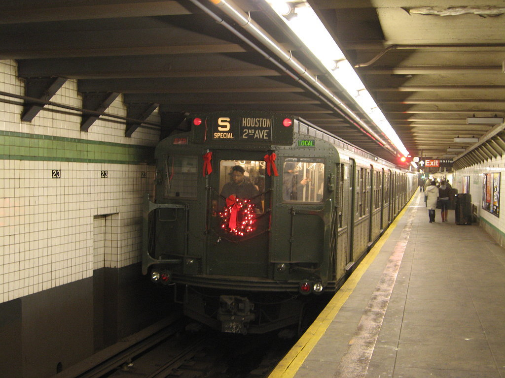 New York City Subway R1 #100 in special holiday service, at the 23rd Street Station on the 6 Avenue Line in New York, NY.